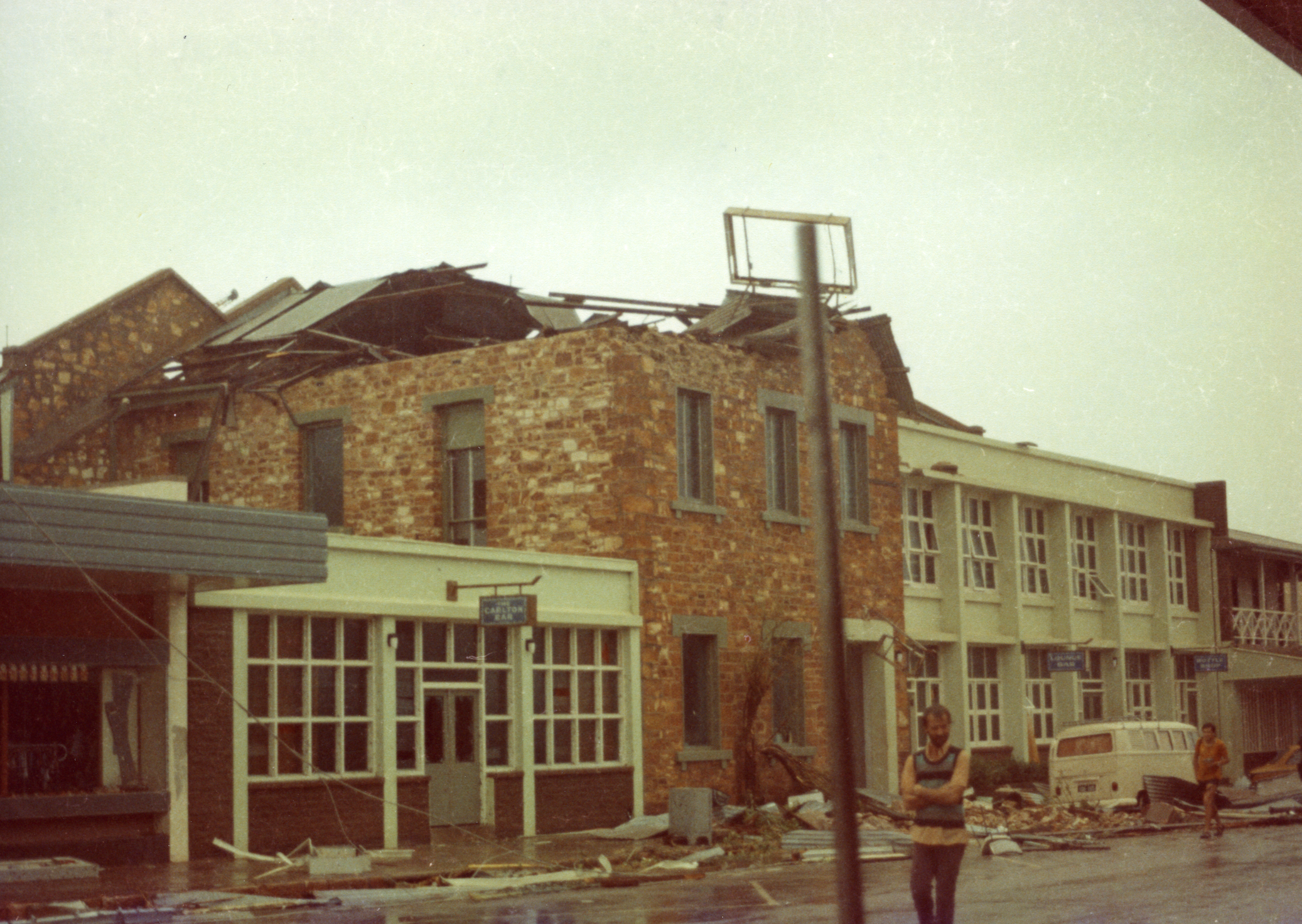 The Hotel Victoria, also known as The Vic Hotel on Smith Street, Darwin, showing roof damage to the original section. (PH0244/0016)